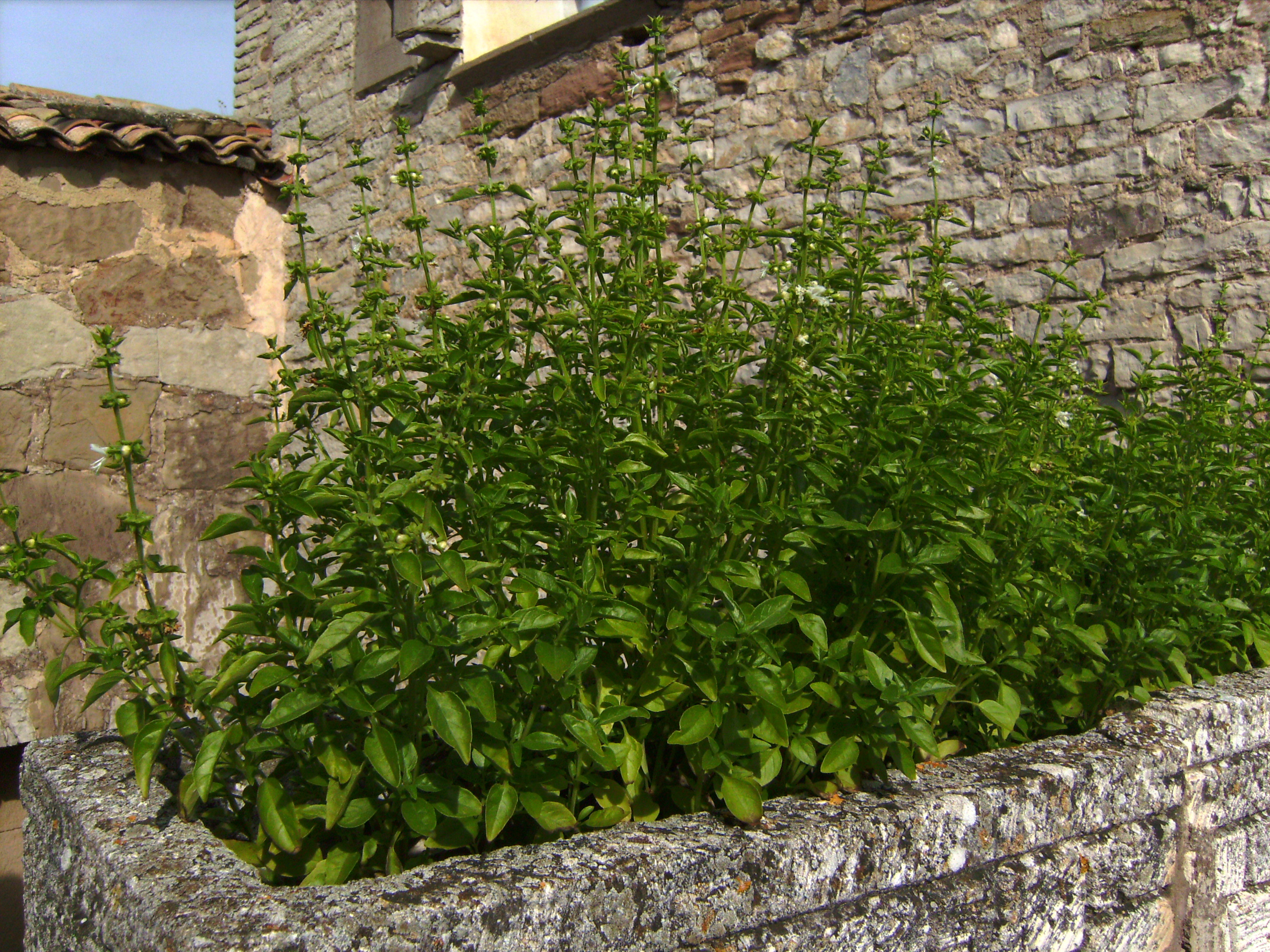 Basil, Ocimum basilicum, cultivated, three months after seeding. Castelltallat, Catalonia